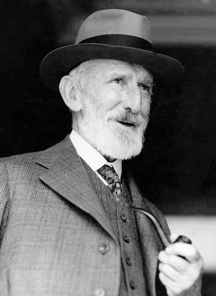 Cricketer T.W. Garrett, of Sydney, who played in the first Test match between England and Australia, 1 March 1937. SMH Picture by STAFF